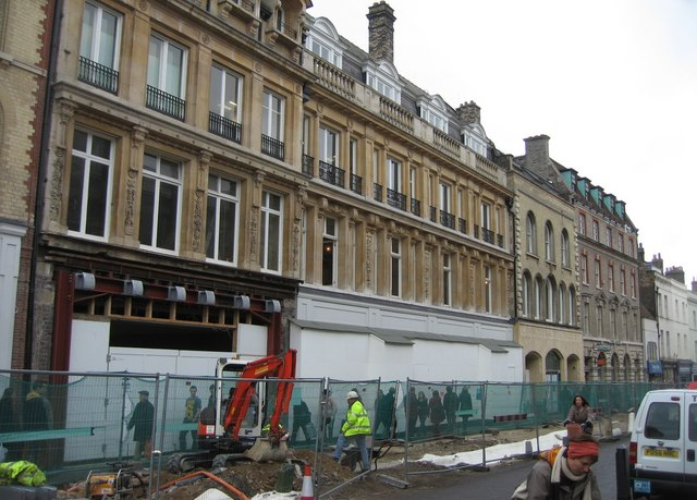 Ex Robert Sayle facade John Lewis have their new store a short walk from here. The bus stops are being redone in this photo. Not sure who will occupy the old Robert Sayle shop (John Lewis), behind these buildings are many new shops making up the Grand Arcade project.